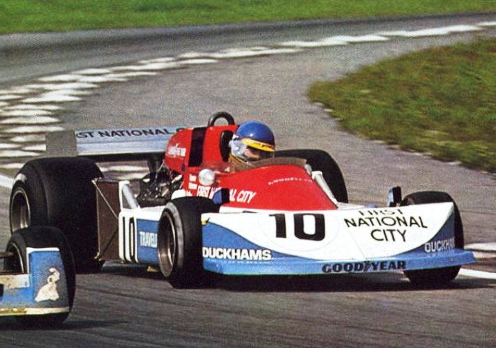 Ronnie Peterson driving a March-Ford at the 1976 Italian Grand Prix